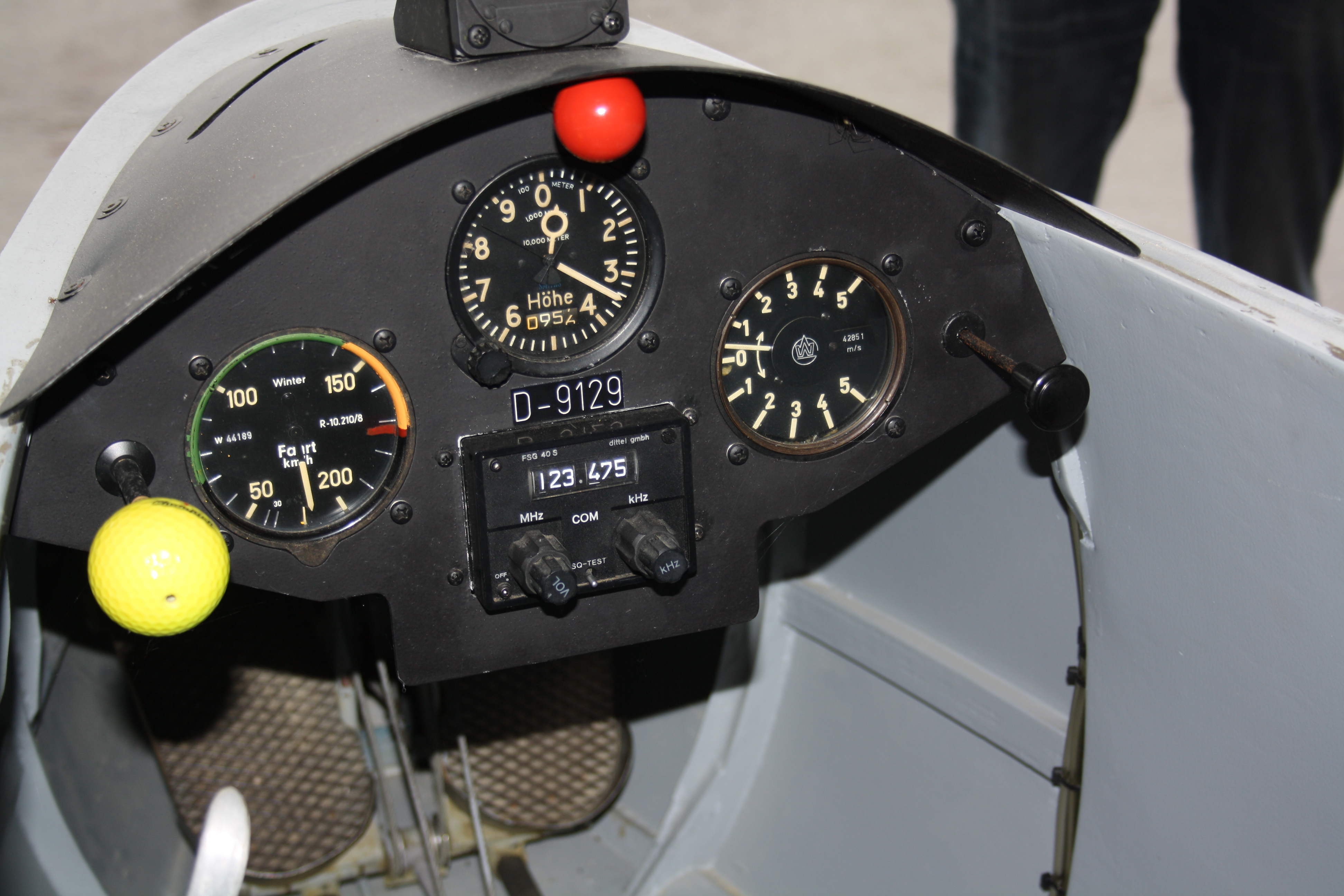 Cockpit of the sailplane Geier II